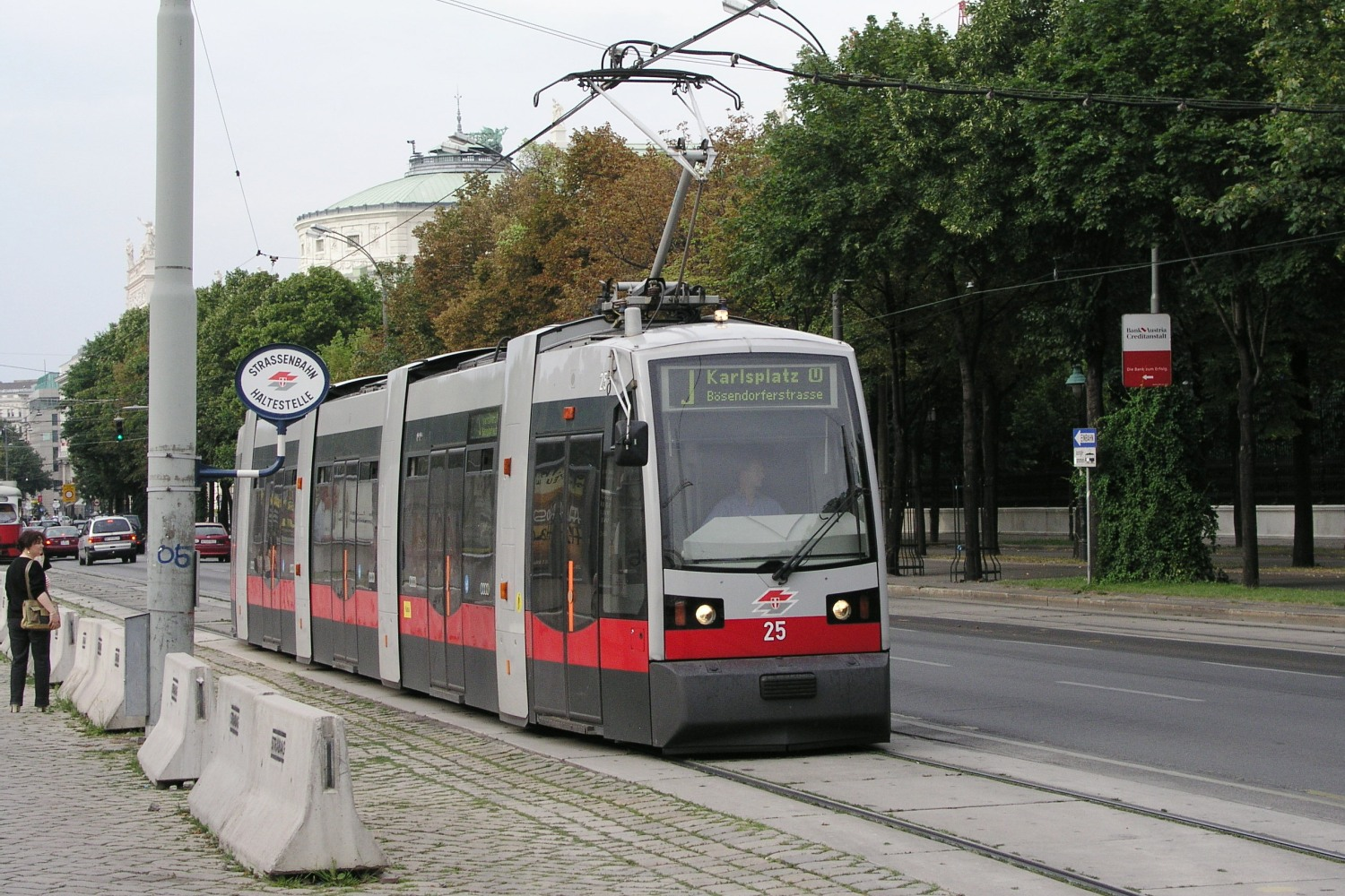 ULF tramcar type A (the shorter version) on line "J" on the Ringstraße near the Burgtheater - ULF Typ A (die kürzere Variante) auf Linie J auf der Ringstraße nahe dem Burgtheater own image, 24 July 2004 Photographer: Martin Ortner, Vienna, Austria